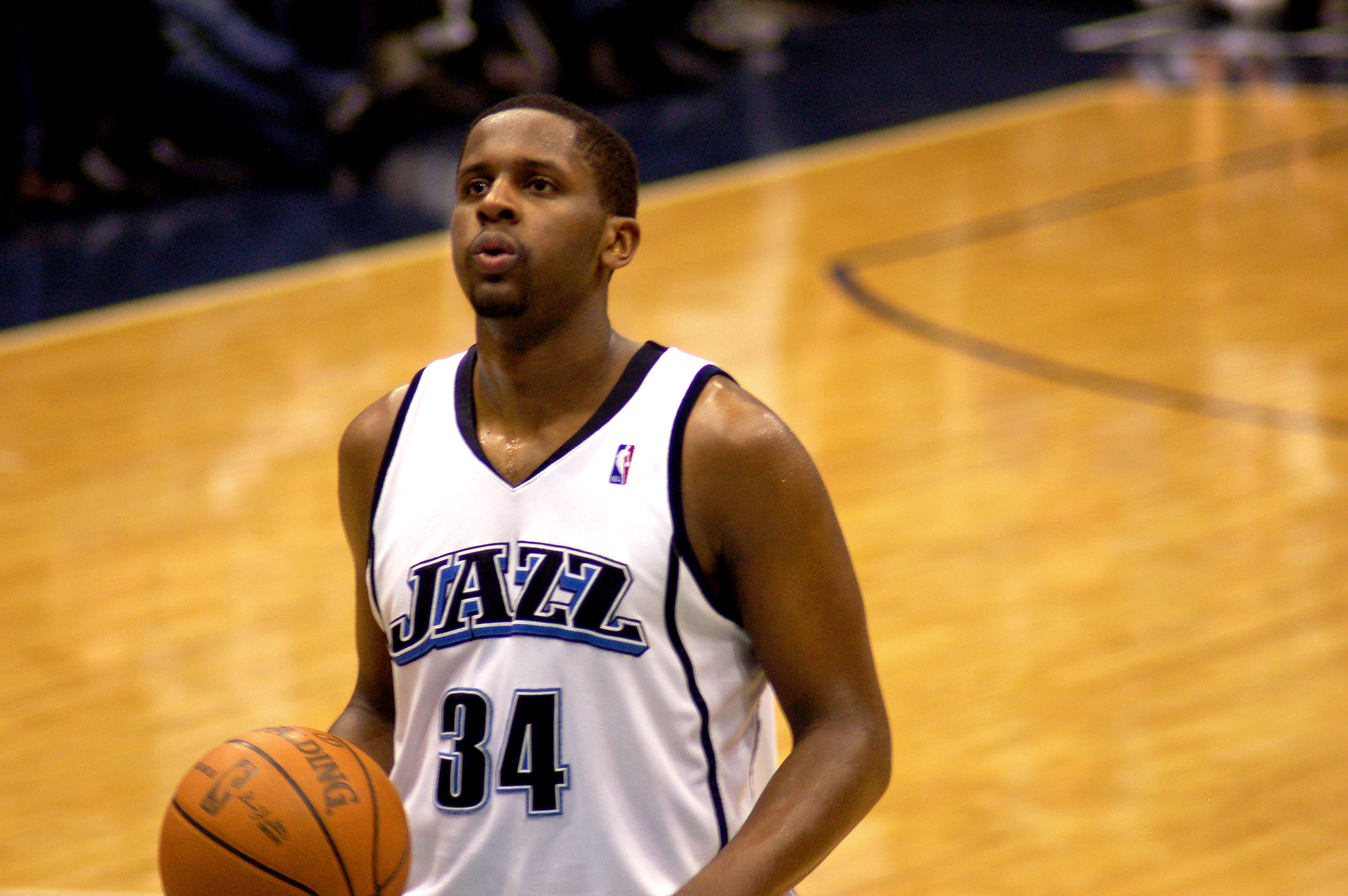 C.J. Miles